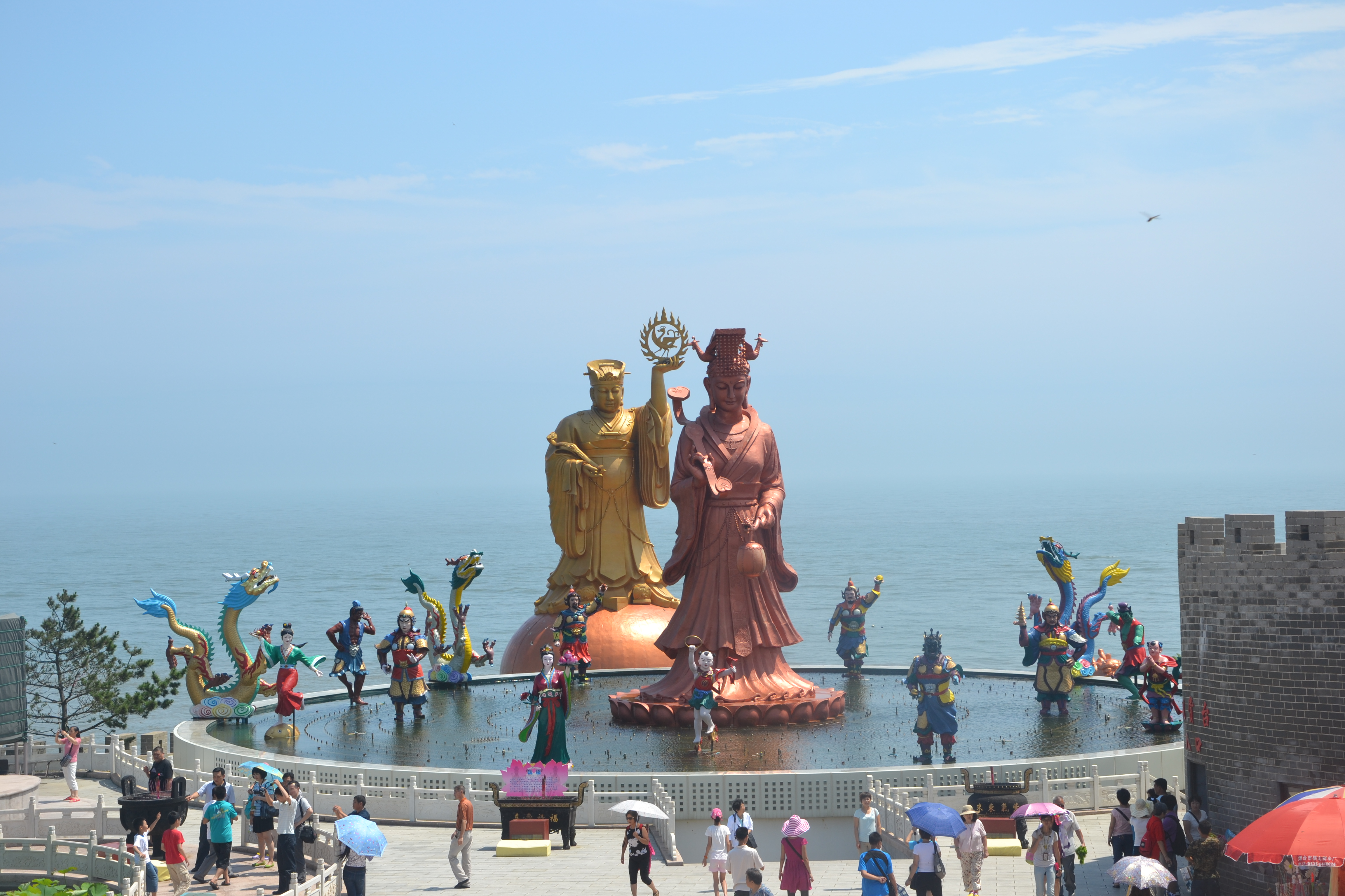 Altar-fountain with incense burners and statues of various deities including the Great Sun Goddess (太陽神 Tàiyángshén) and the Ancestral Mother (媽祖 Māzǔ), surrounded by the four Dragon Gods (龍神 Lóngshén) and various lesser deities at Chengshan Peak (成山头 Chéngshāntóu), in Weihai, Shandong.